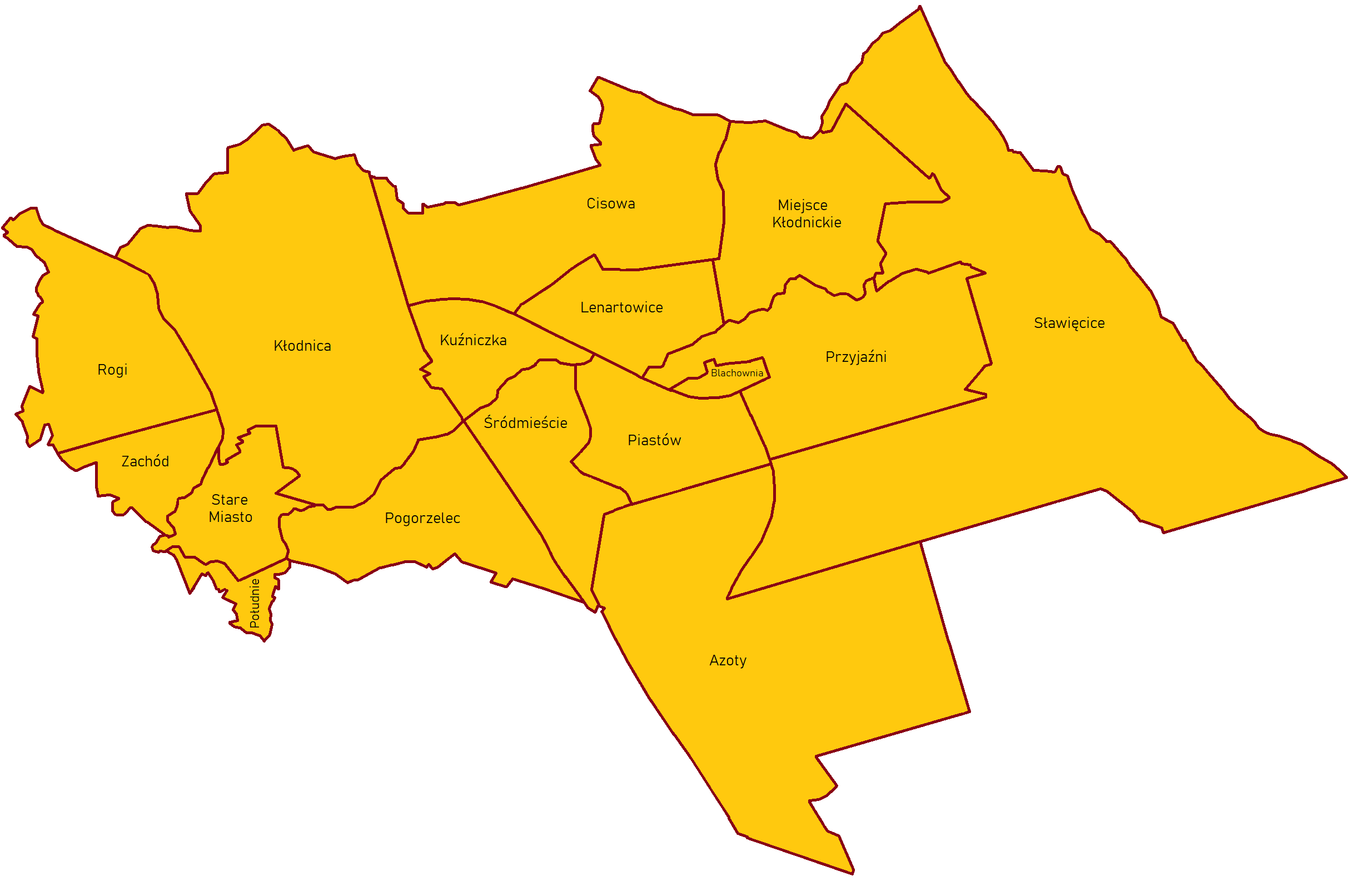 Mapa osiedli miasta Kędzierzyn - Koźle według stanu prawnego na dzień 1.08.2019